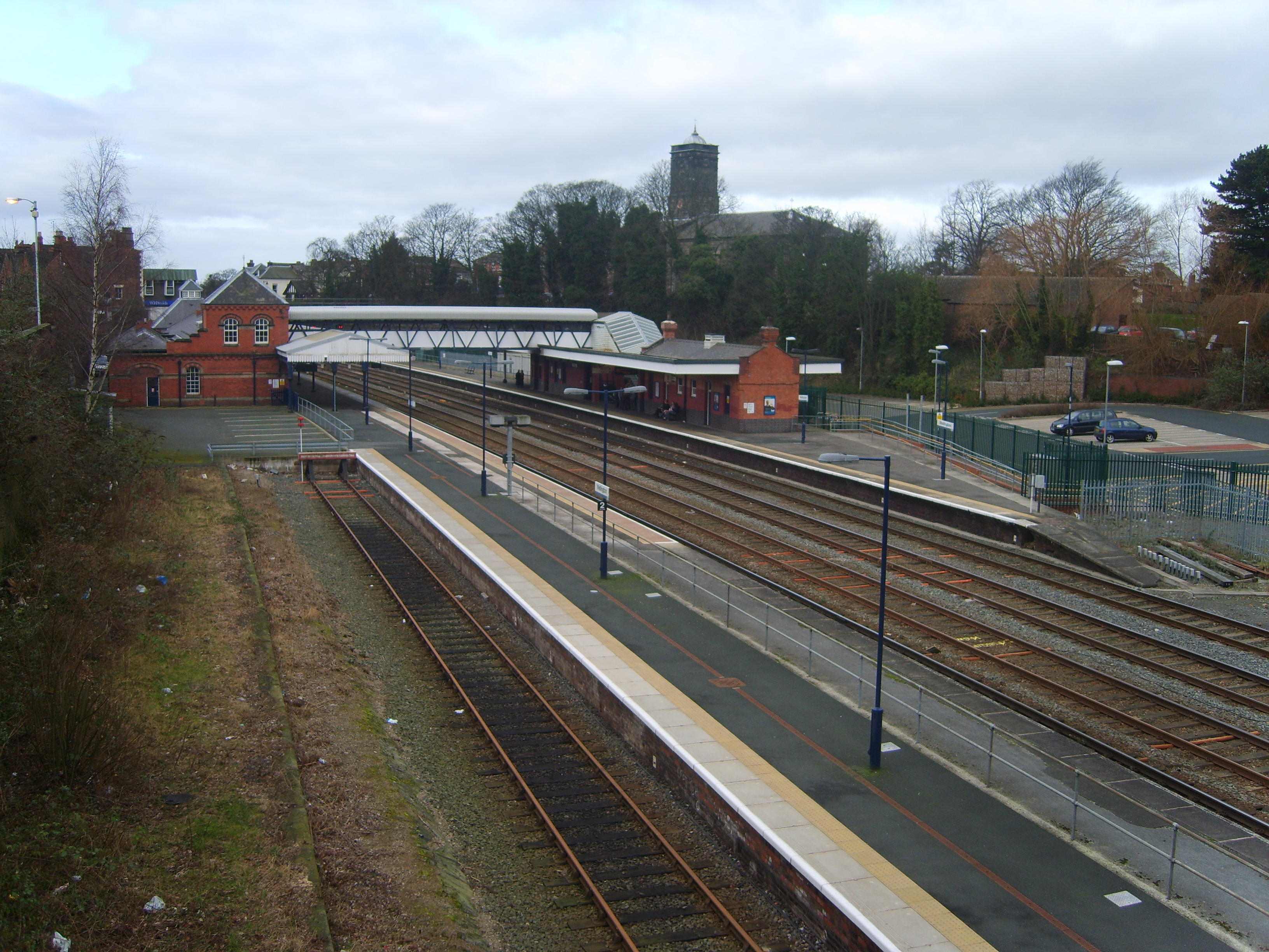 Wellington (Shropshire) Railway Station, Shropshire, England. Taken facing towards the eastbound direction towards Shrewsbury.